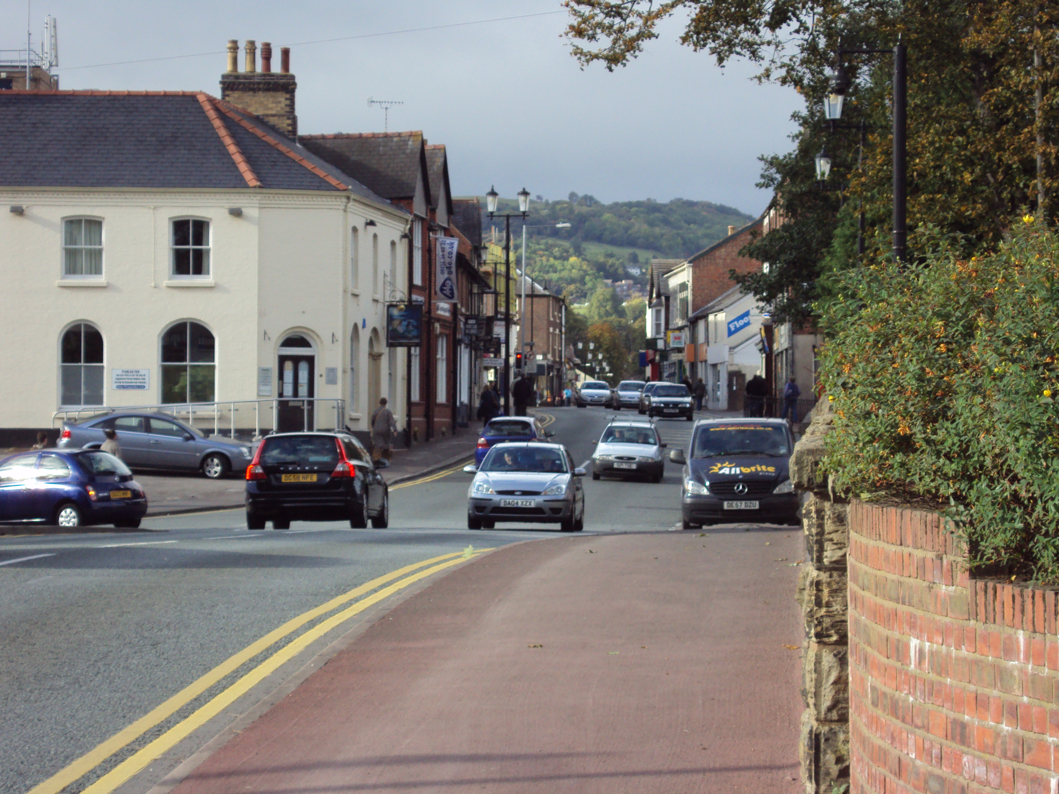 Chester Street, Mold, Flintshire, Wales.